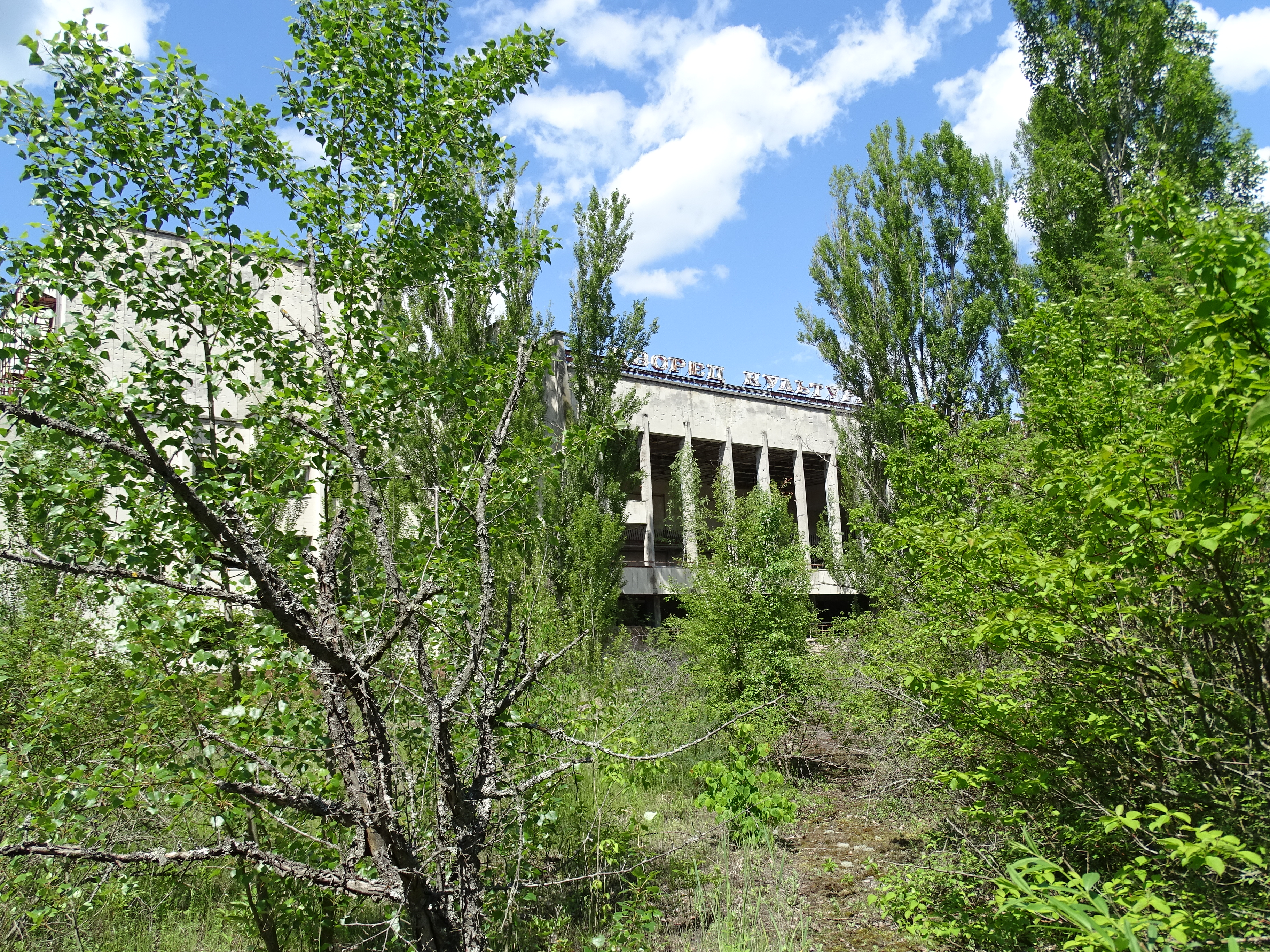 Pripyat Ghost Town - Chernobyl Exclusion Zone - Northern Ukraine - 02